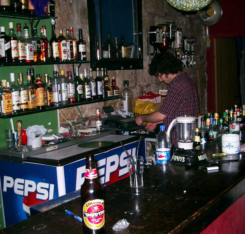 A bartender at work in a pub in Jerusalem, Israel.